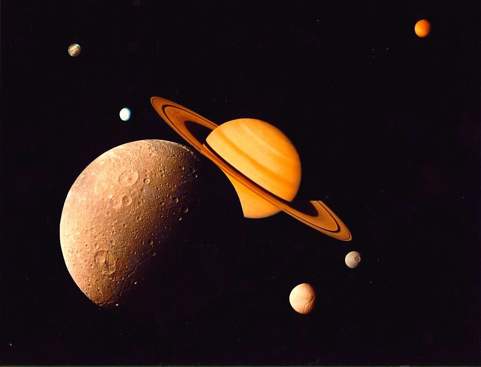 Montage of Saturn and several of its satellites, Dione, Tethys, Mimas, Enceladus, Rhea, and Titan. JPL image PIA01482: Saturn System Montage This montage of images of the Saturnian system was prepared from an assemblage of images taken by the Voyager 1 spacecraft during its Saturn encounter in November 1980. This artist's view shows Dione in the forefront, Saturn rising behind, Tethys and Mimas fading in the distance to the right, Enceladus and Rhea off Saturn's rings to the left, and Titan in its distant orbit at the top.